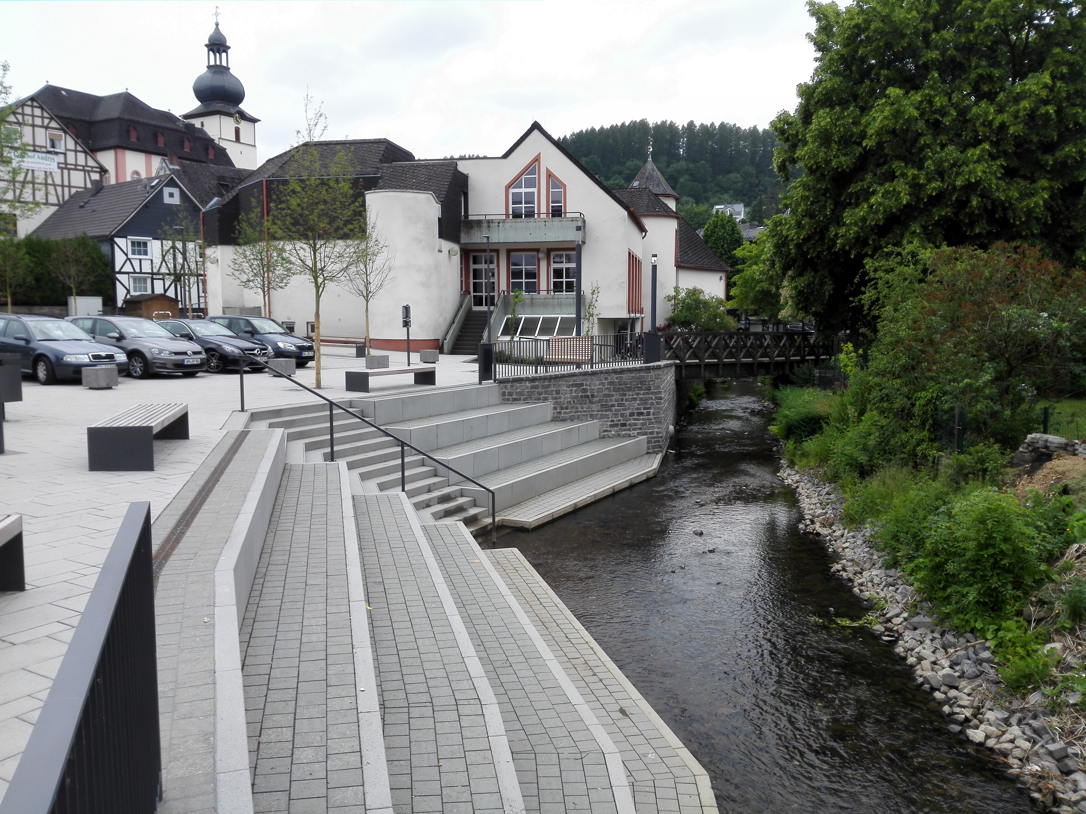 The stream Daade in Daaden (Rhineland-Palatinate, Germany)